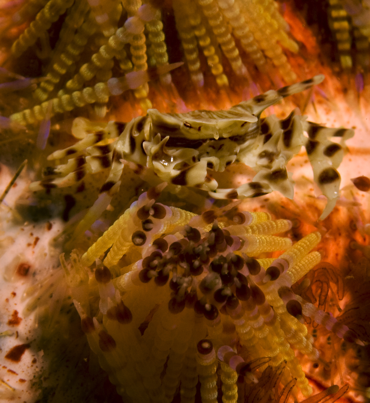 Zebrida adamsii (zebra urchin crab), commensal with short spine sea urchins, here on a fire urchin, Asthenosoma varium. In Komodo area, Indonesia.